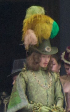 Freddie Fox in Three Musketeers 2011